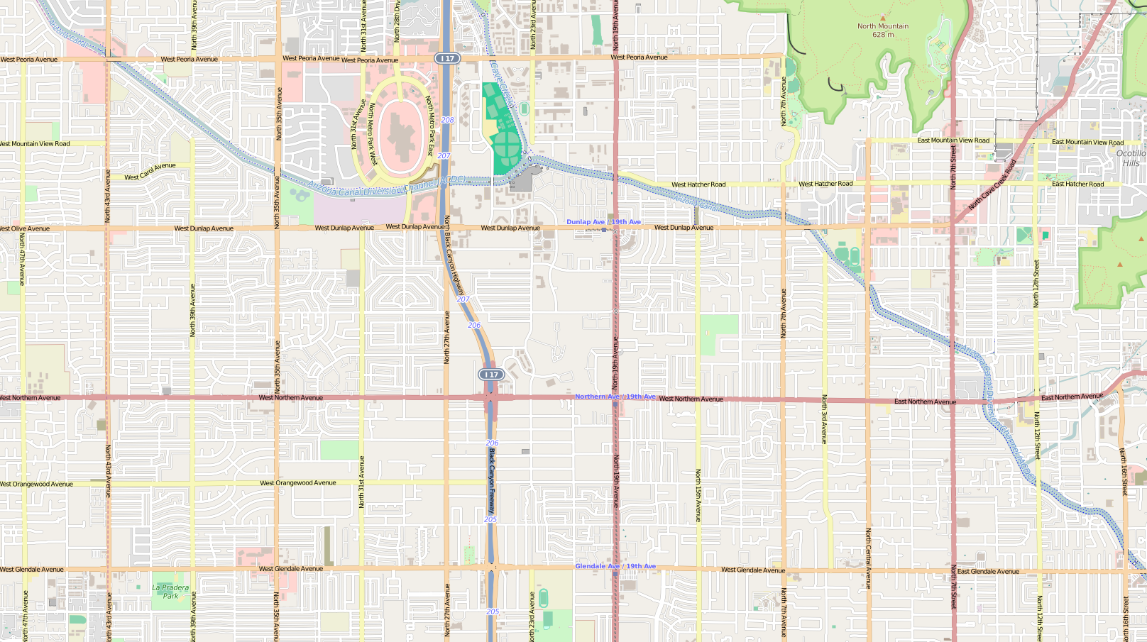 OpenStreetMap view of labeled arterial roads in Phoenix, Arizona. This map may be incomplete, and may contain errors. Don't rely solely on it for navigation.